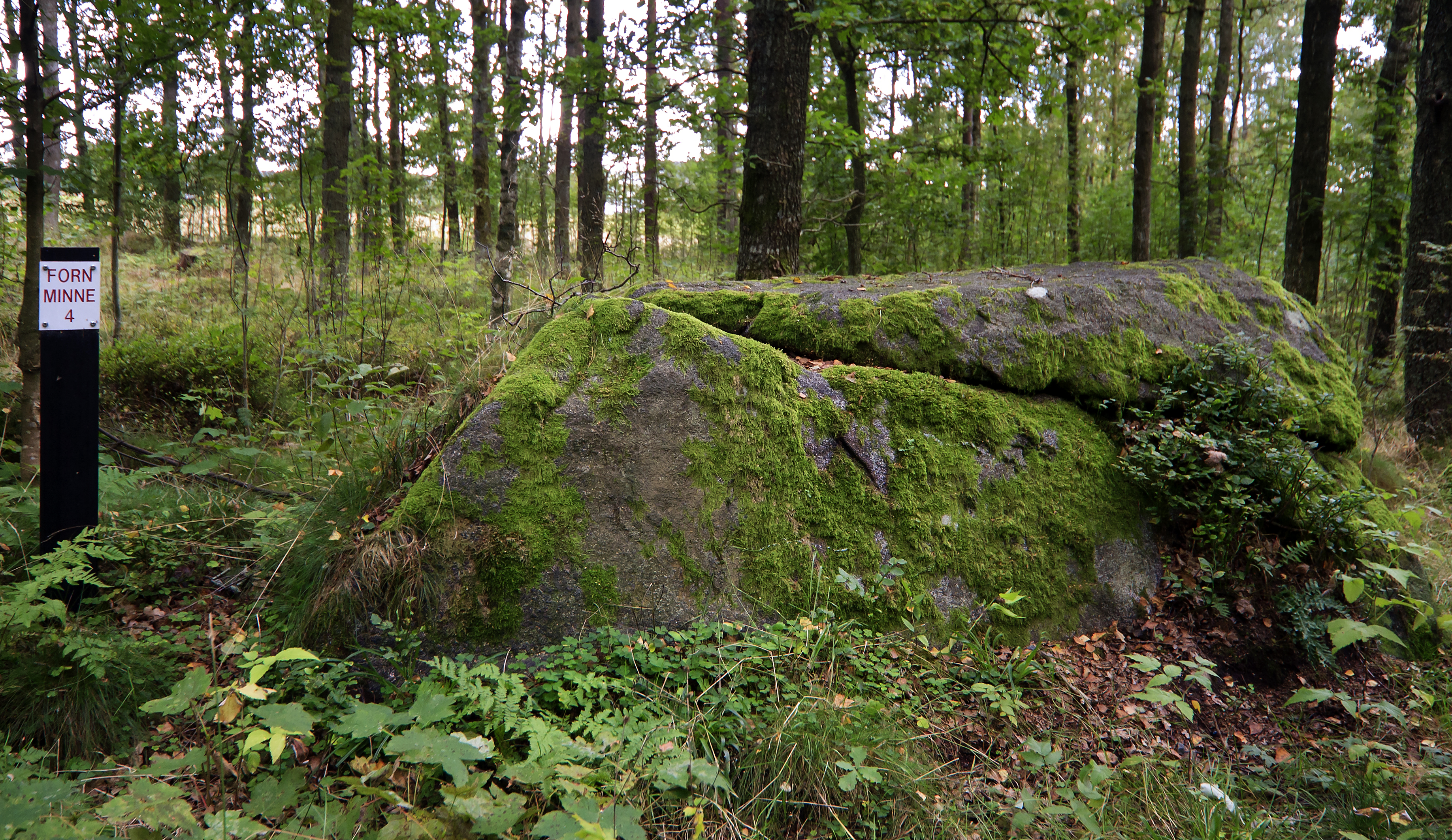 "Pyssestenen" is an archaeological find near Röke in Hässleholm Municipality, Sweden. It is a stone with cup marks.